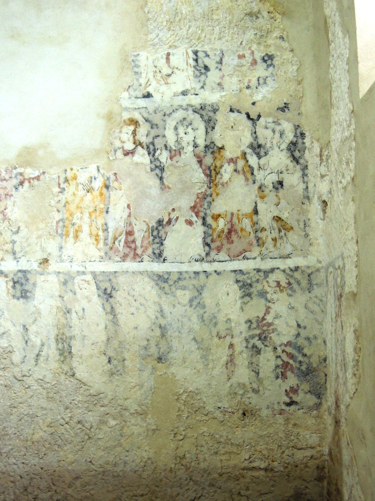 Zahradka near Ledeč nad Sázavou, St. Vitus church, frescoes (13th - 14th century)